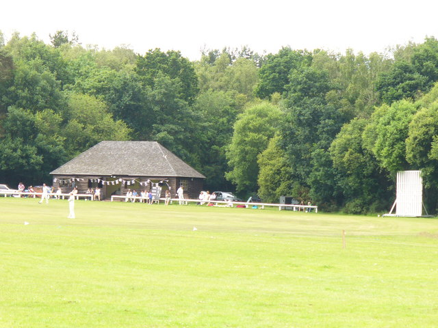 Cricket at Pirbright The cricket pitch sits across the Avenue de Cagny from the triangular village green with its duck pond.